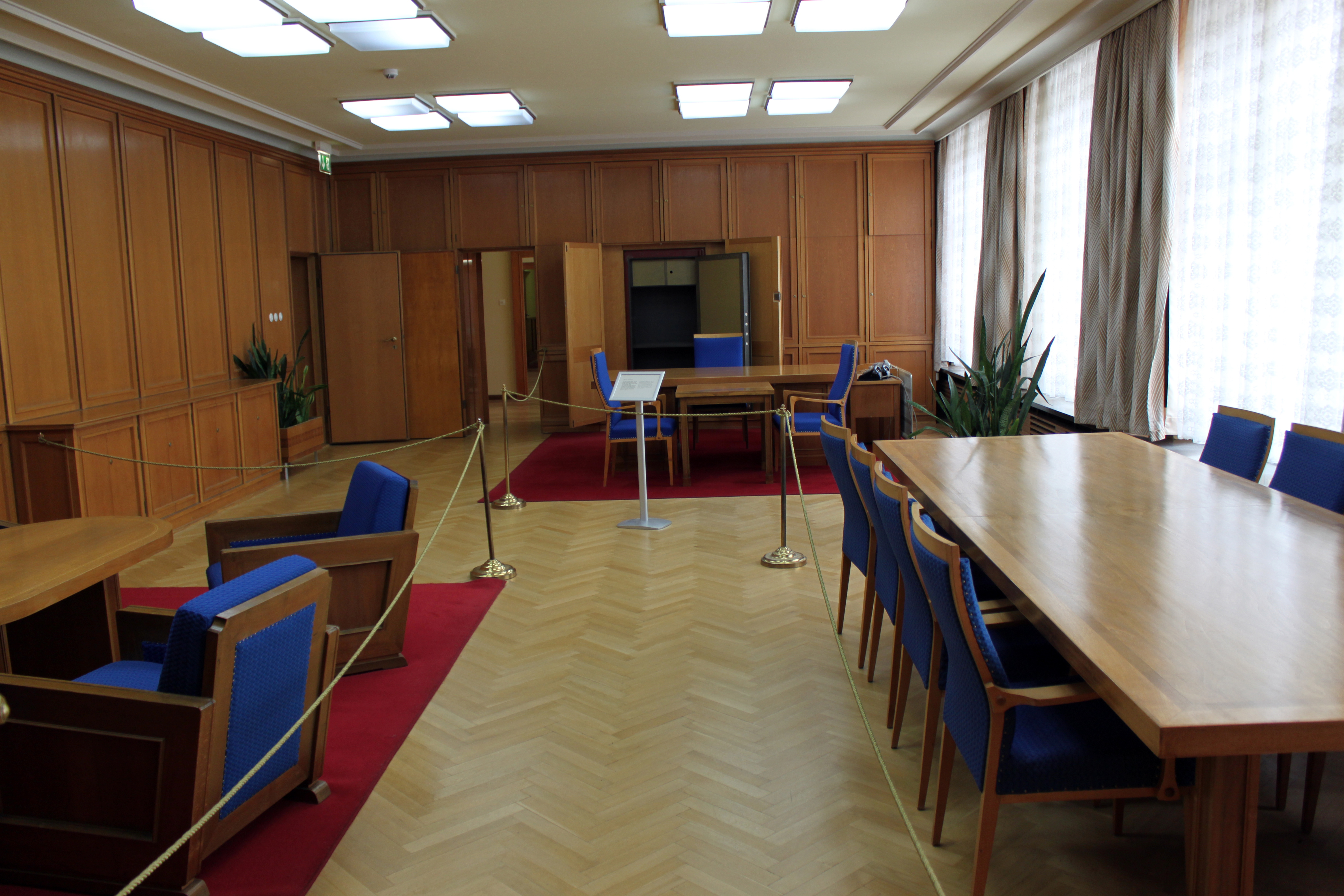 Stasi Museum Berlin: office of Stasi Boss Erich Mielke